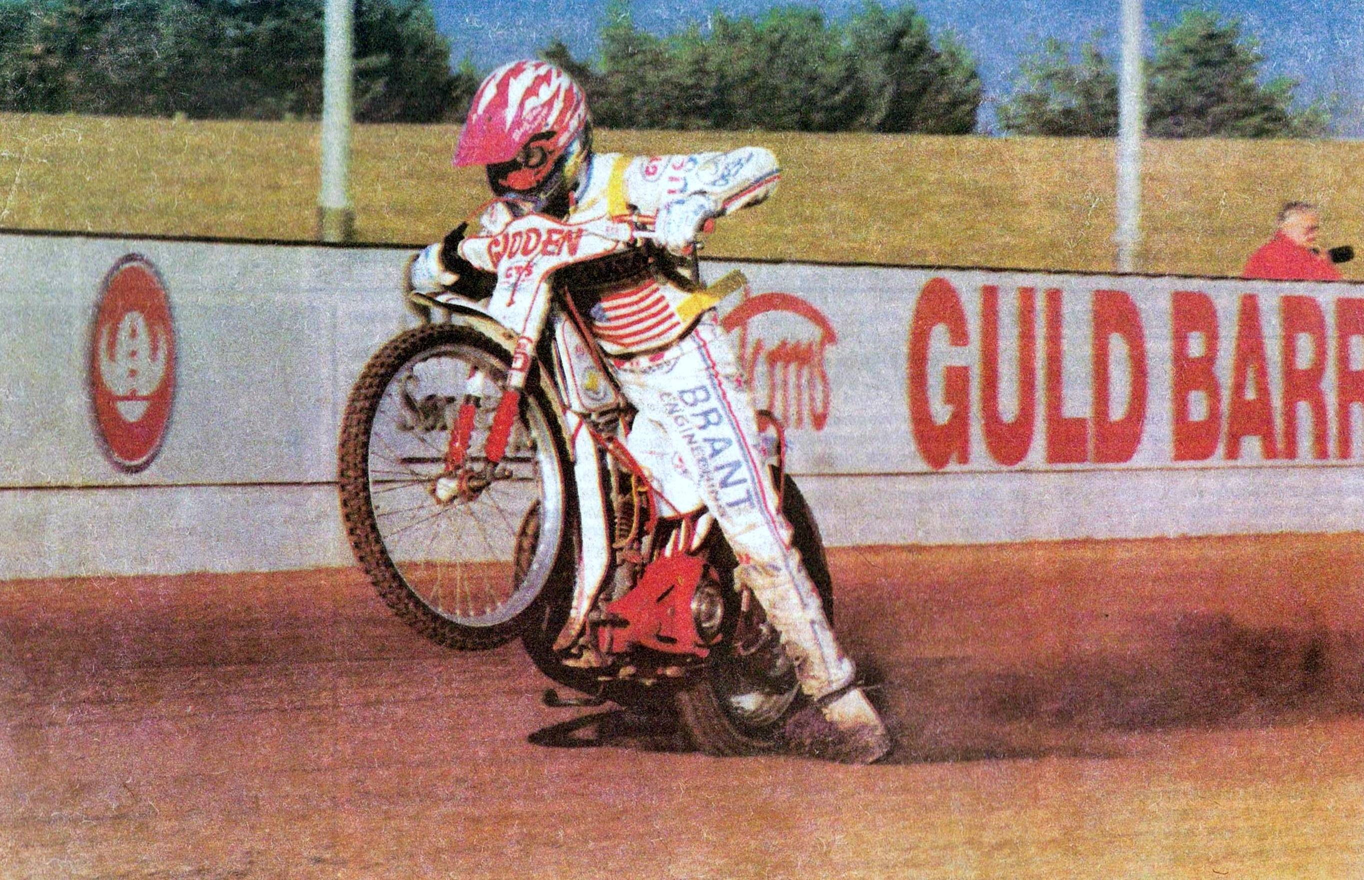 Billy Hamill. Speedway rider from USA. 1991.